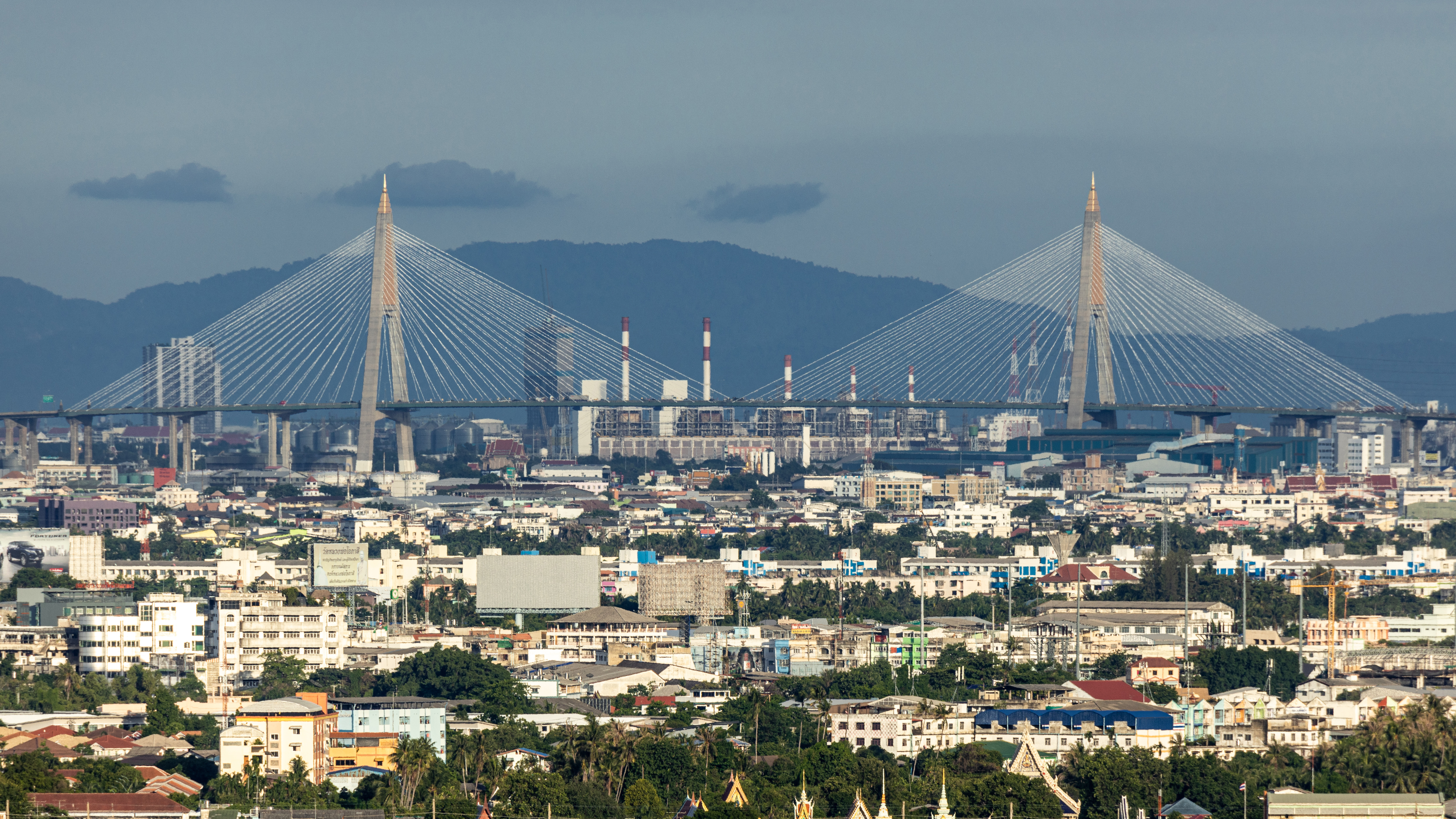 Kanchanaphisek Bridge is a cable stayed bridge crossing the Chao Phraya river in Samut Prakan Province, Thailand. It is part of the Outer Ring Road encircling Bangkok.